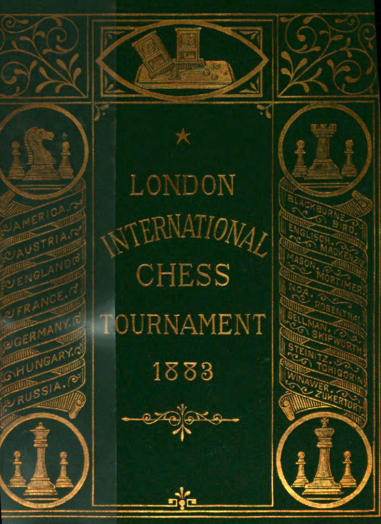 "London International Chess tournament" by J.I.Minchin, 1883, scan of book cover